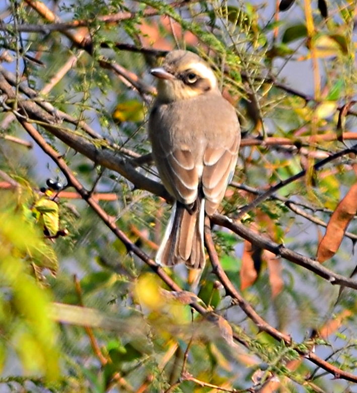 Common Woodshrike from Punjab, India